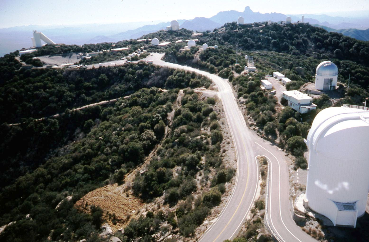 View of Kitt Peak Observatory from the dome of 4 m Nicholas U. Mayall Telescope in 1988